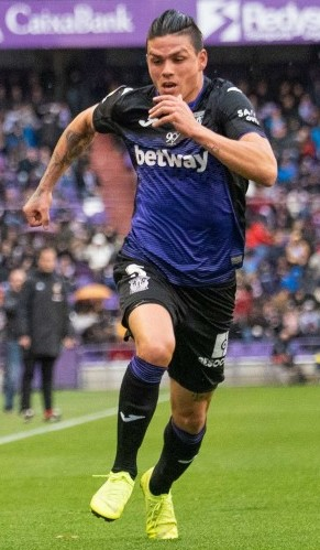 Real Valladolid - C. D. Leganés, 14th fixture of the 2018-19 La Liga, December 1, 2018.